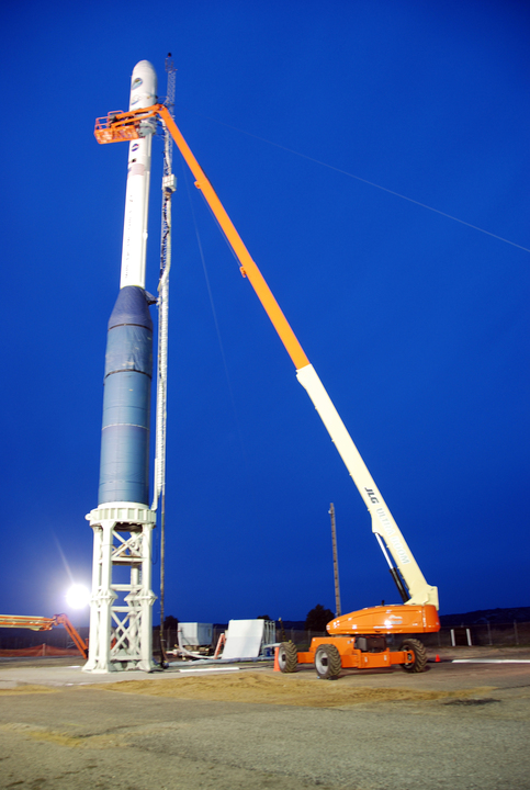 Taurus-3110 (Taurus XL) rocket with OCO satellite on the launch Pad VANDENBERG AIR FORCE BASE, Calif. -- On Launch Complex 576-E at Vandenberg Air Force Base in California, Orbital Sciences' Taurus XL rocket undergoes final vehicle closeouts for launch. NASA's Orbiting Carbon Observatory, or OCO, is atop the Taurus. OCO is scheduled for launch on the Taurus rocket Feb. 24 from Vandenberg. The spacecraft will collect precise global measurements of carbon dioxide (CO2) in the Earth's atmosphere. Scientists will analyze OCO data to improve our understanding of the natural processes and human activities that regulate the abundance and distribution of this important greenhouse gas.